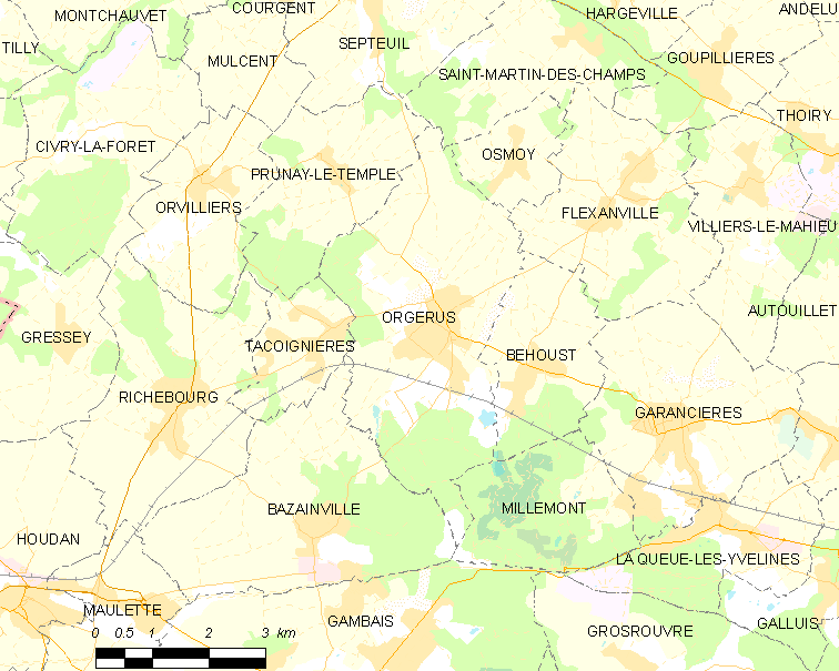 Map of French municipality Orgerus